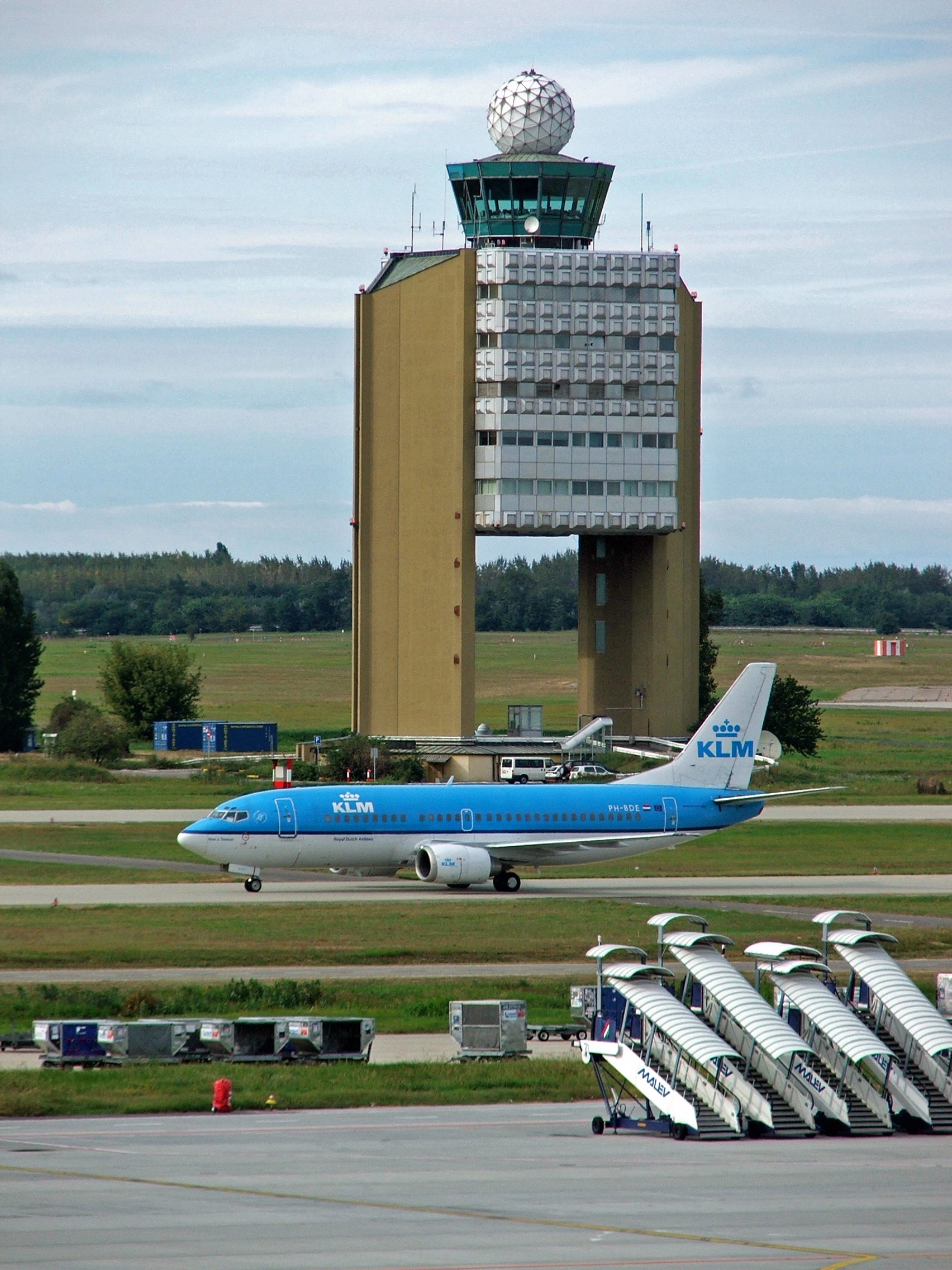 LHBP Tower, Ferihegy airport, Budapest